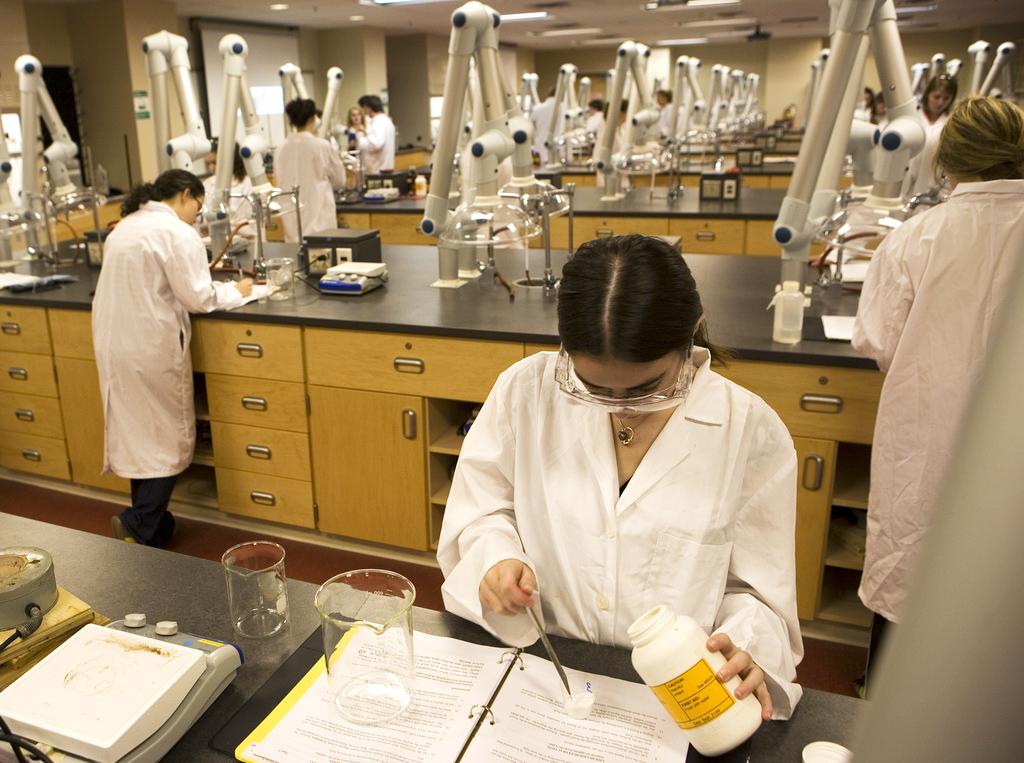 StFX Physical Sciences Center lab.